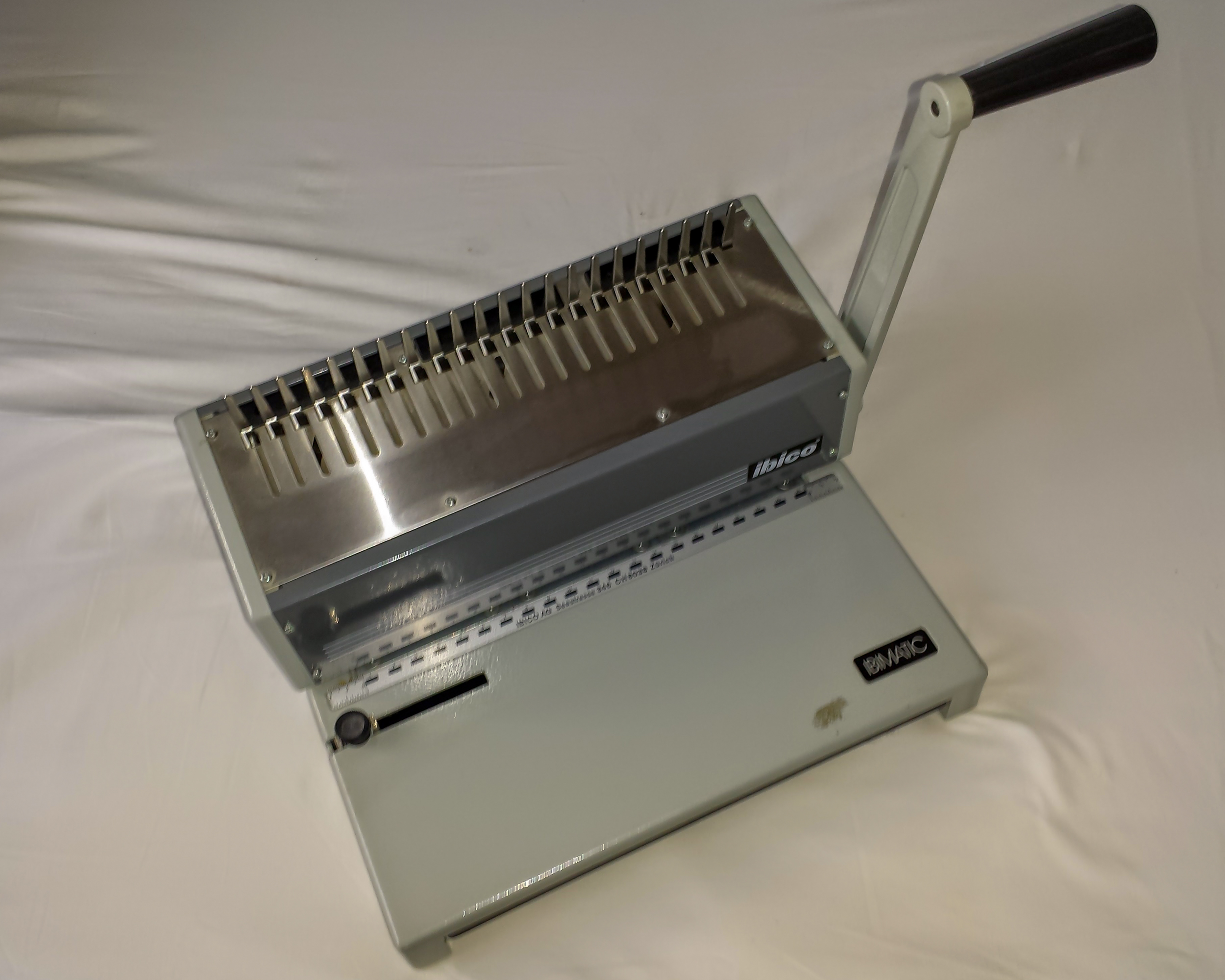 Ibico Ibimatic comb binding machine